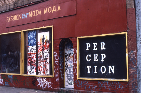 Exterior shot of Fashion Moda, 2803 Third Avenue, Bronx, NY